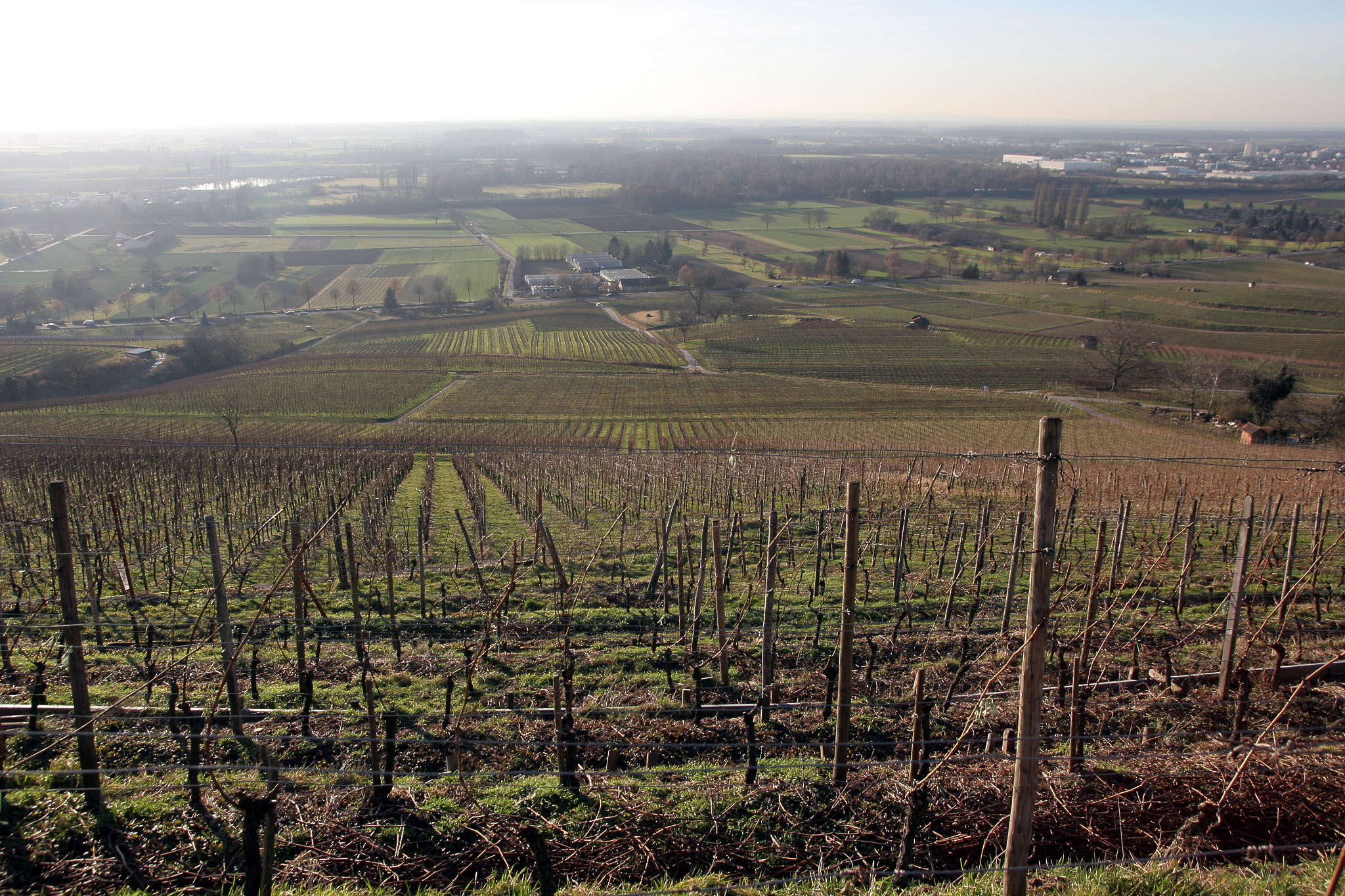 The vineyards of the wine location Heppenheimer Stemmler between Bensheim und Heppenheim (in Hesse, Germany). In the valley the federal highway B 3